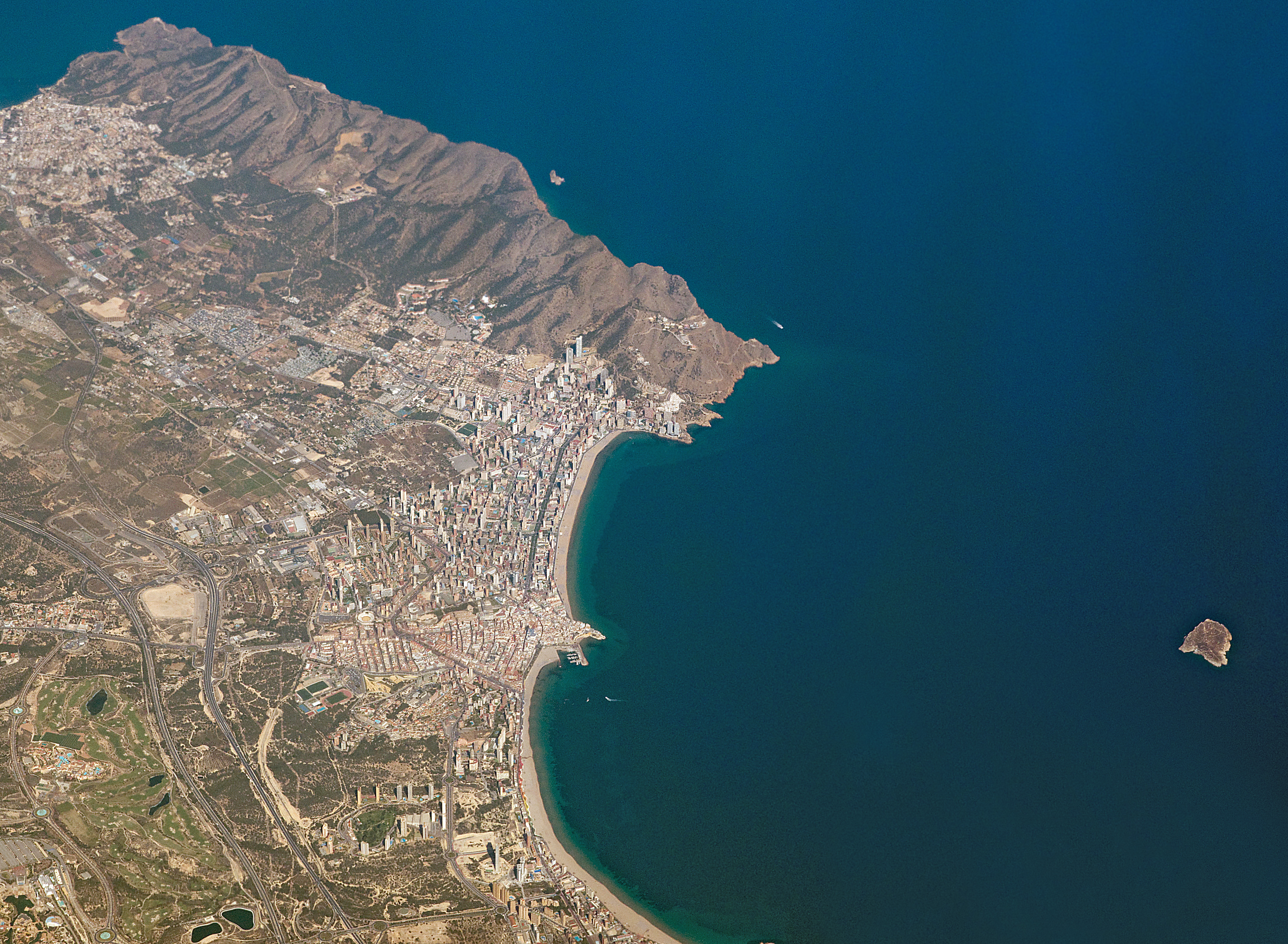 Photographed on Air France flight AF0914 from Paris Charles de Gaulle (France) to Ouagadougou (Burkina Faso) on Monday 07 May 2018, 16:54 UTC+2 (CEST).